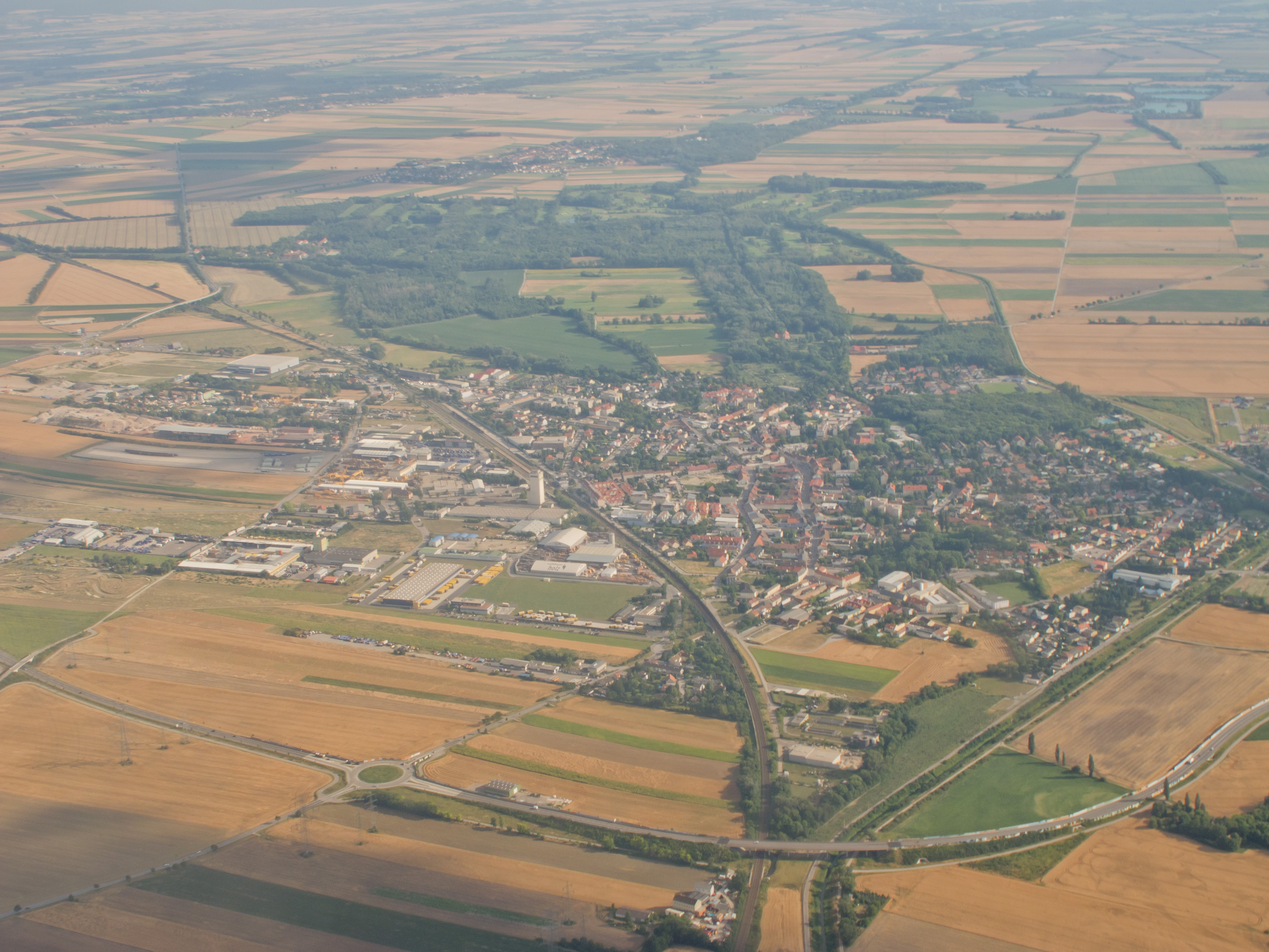 Aerial photograph of Himberg bei Wien, Austria.